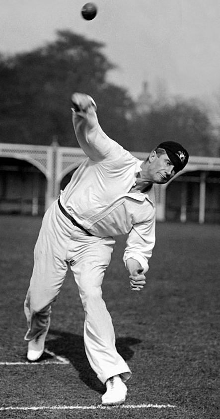 Montague Alfred Noble, New South Wales and Australia, circa 1905.